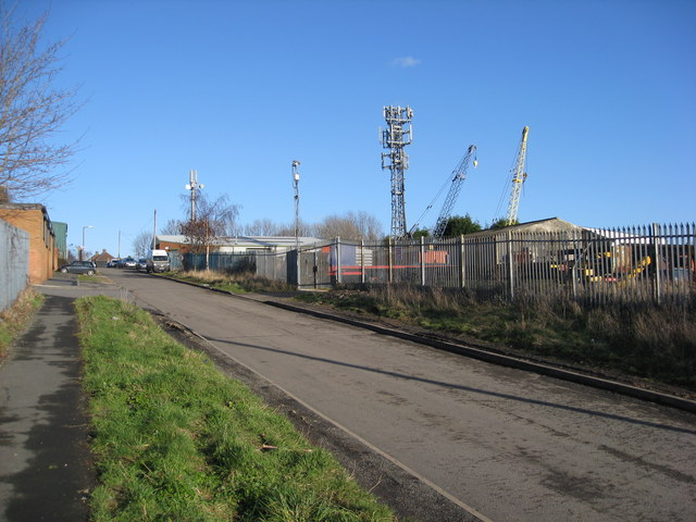 Brookhouse Road